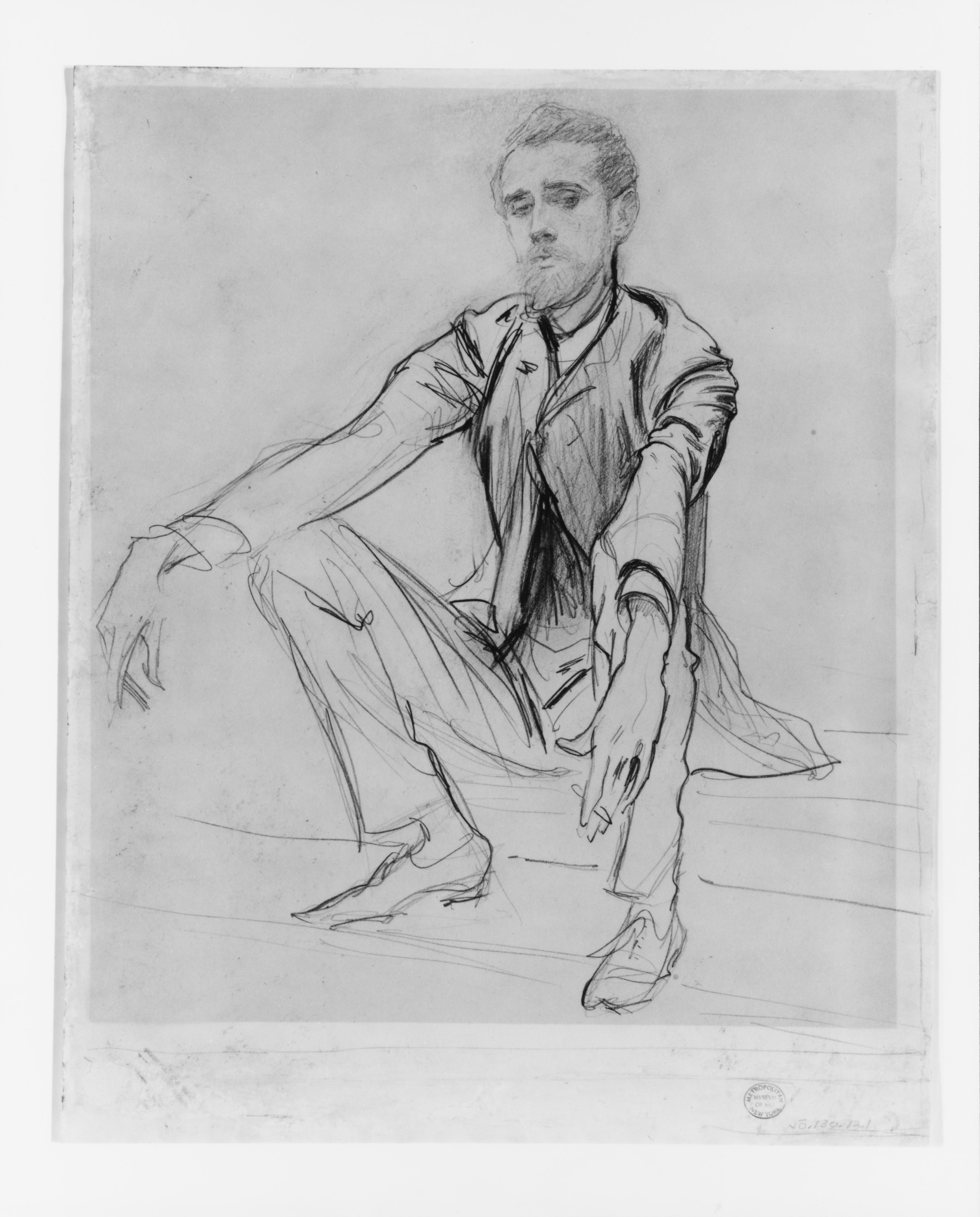 Paul Helleu Artist: John Singer Sargent (American, Florence 1856–1925 London) Date: early 1880s Medium: Graphite on off-white paper board Dimensions: 13 3/16 x 10 5/16 in. (33.5 x 26.2 cm) Mat: 19 1/4 × 14 1/4 in. (48.9 × 36.2 cm) Classification: Drawings Credit Line: Gift of Mrs. Francis Ormond, 1950 Sargent cherished this candid drawing of his lifelong friend Paul Helleu (1859–1927) and hung it in the dining room of his Paris apartment.